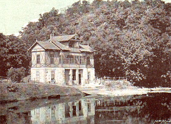 arad